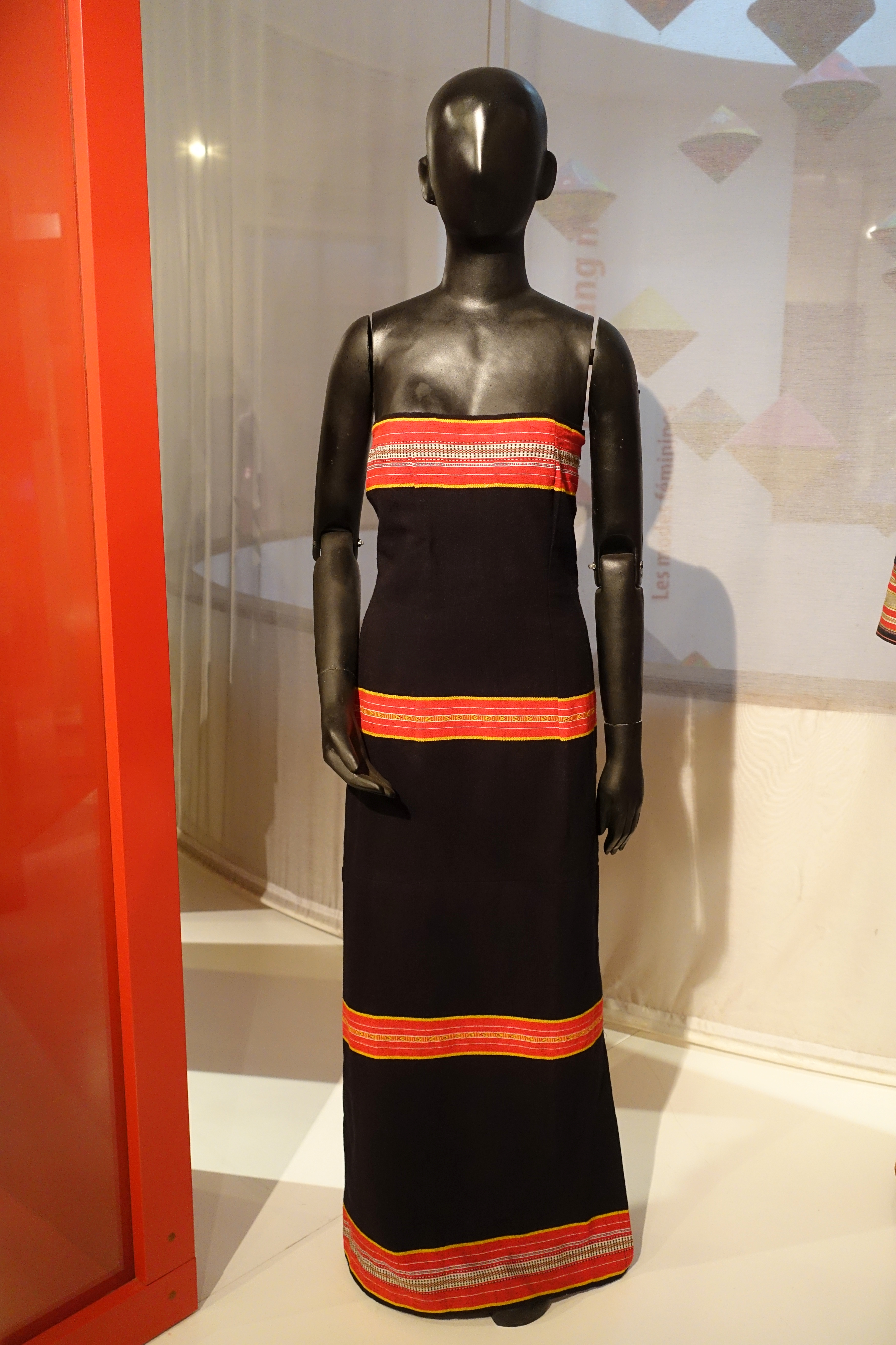 Exhibit in the Vietnamese Women's Museum, Hanoi, Vietnam.